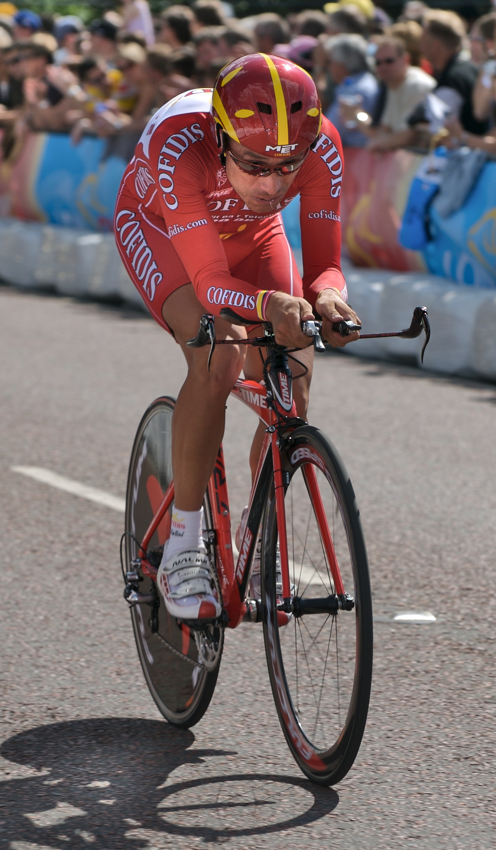 Ivan Parra in Cofidis dress (2007)